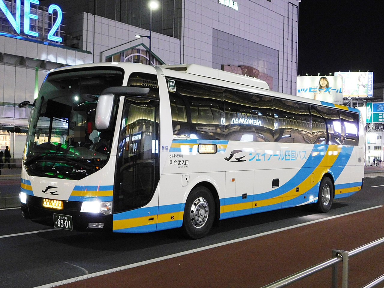 JR Shikoku bus Mitsubishi Fuso Aero Ace (2TG-MS06GP)on highwaybus "Dream Takamatsu"(Tokyo,Shinjuku-Takamatsu,Kan-onji)